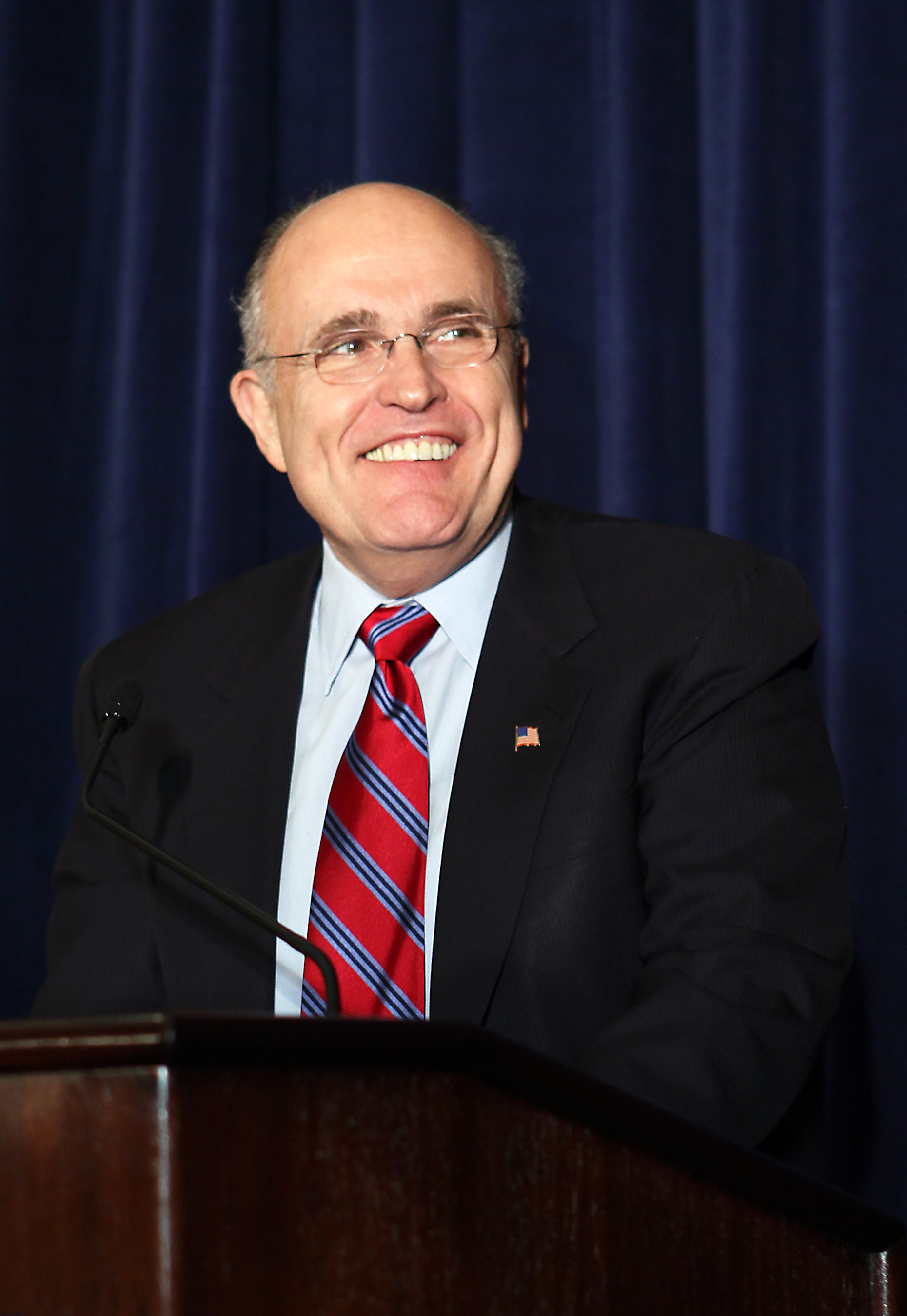 NEW YORK -- Rudy Giuliani, former New York City mayor and presidential candidate, gave the keynote speech during a Nov. 8 brunch at the Jumeriah Essex House in honor of the USS New York sailors and Special Purpose Marine Air Ground Task Force 26 Marines who embarked on the ship for her commissioning ceremony Nov. 11.